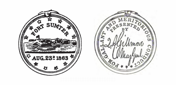 The Gillmore Medal, an unofficial decoration of the United States Army during the American Civil War. Awarded to Union soldiers who served in the fighting around Charleston, South Carolina in 1863 and all soldiers who served at Fort Sumter under General Quincy A. Gillmore's command.